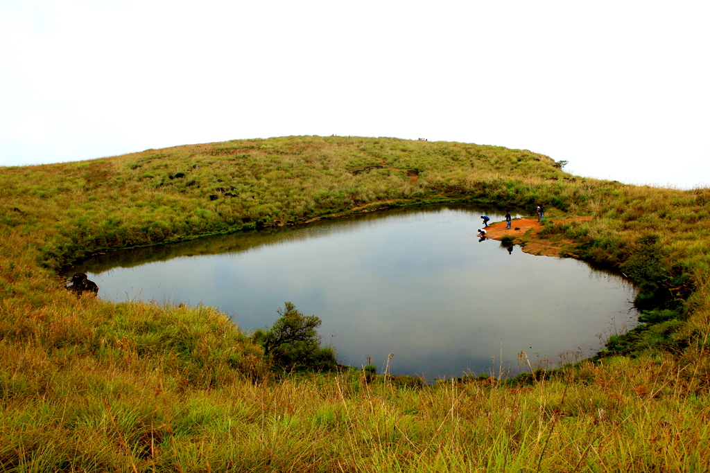 Heart Shaped Pond, Chembra Peak, Wayanad, Kerala, India